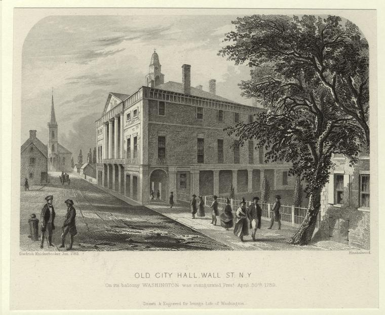 "Old City Hall, Wall St., N.Y." Steel engraving by Robert Hinshelwood, from Washington Irving's Life of George Washington, 5 vol. (1855-59).